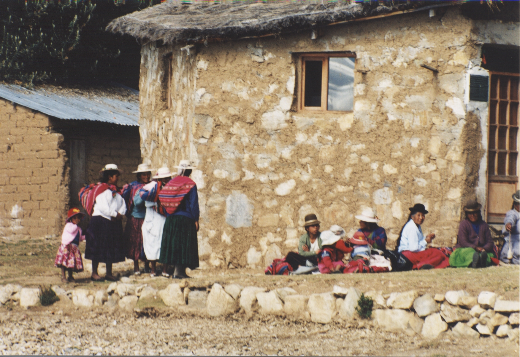 Indian women in Isla del Sol, on Lake Titicaca, in Bolivia.